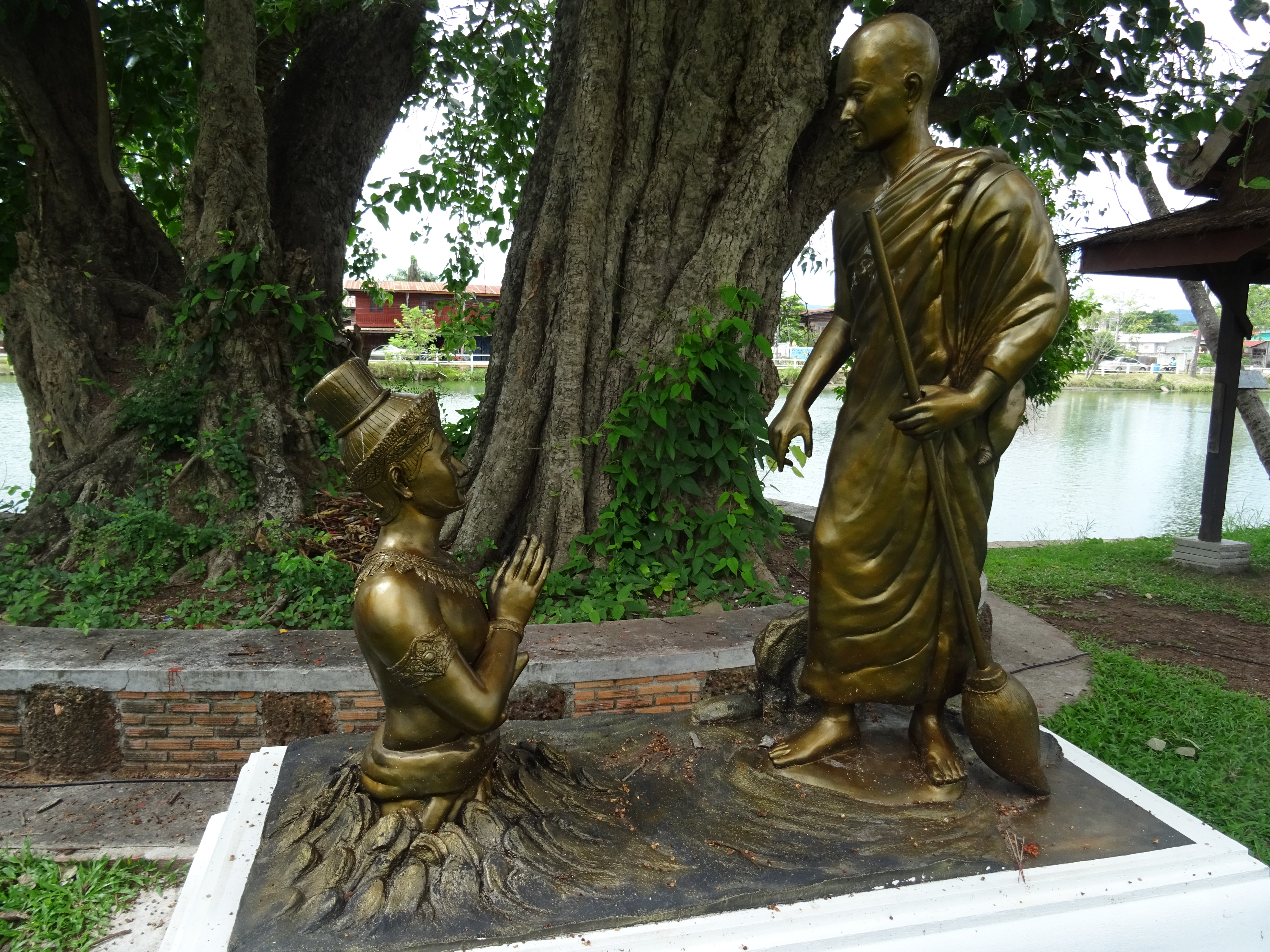 The Memorial of Phra Ruang and Khom Dam Din (The Khmer Assassin) located at Wat Traphang Thong in Sukhothai. In this folk tale, Phra Ruang, who is a monk at Wat Phra Si Mahathat, transform a Khmer assassin sent by the emperor into a rock-like solid mass.